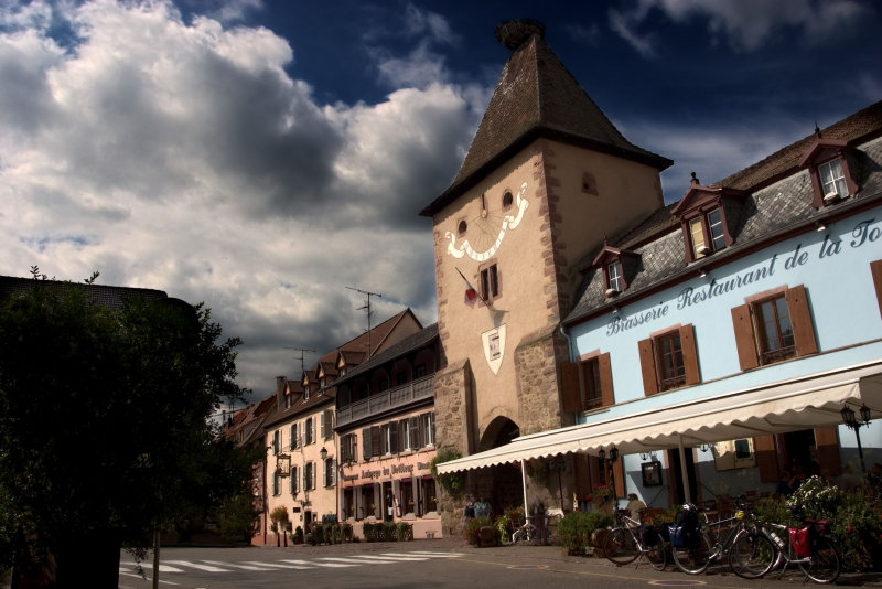 My own originial photo.